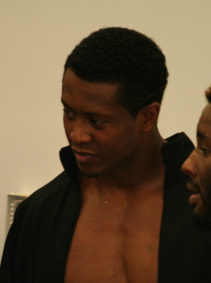 Caprice Coleman at Wrestlecade in Winston-Salem, North Carolina in November 2011. Cropped from original.